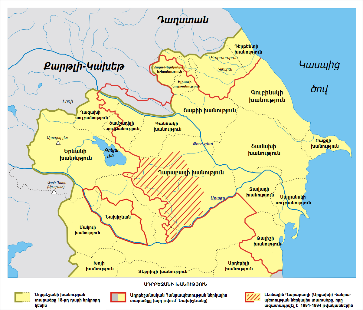 Azerbaijan Khanates map in Armenian